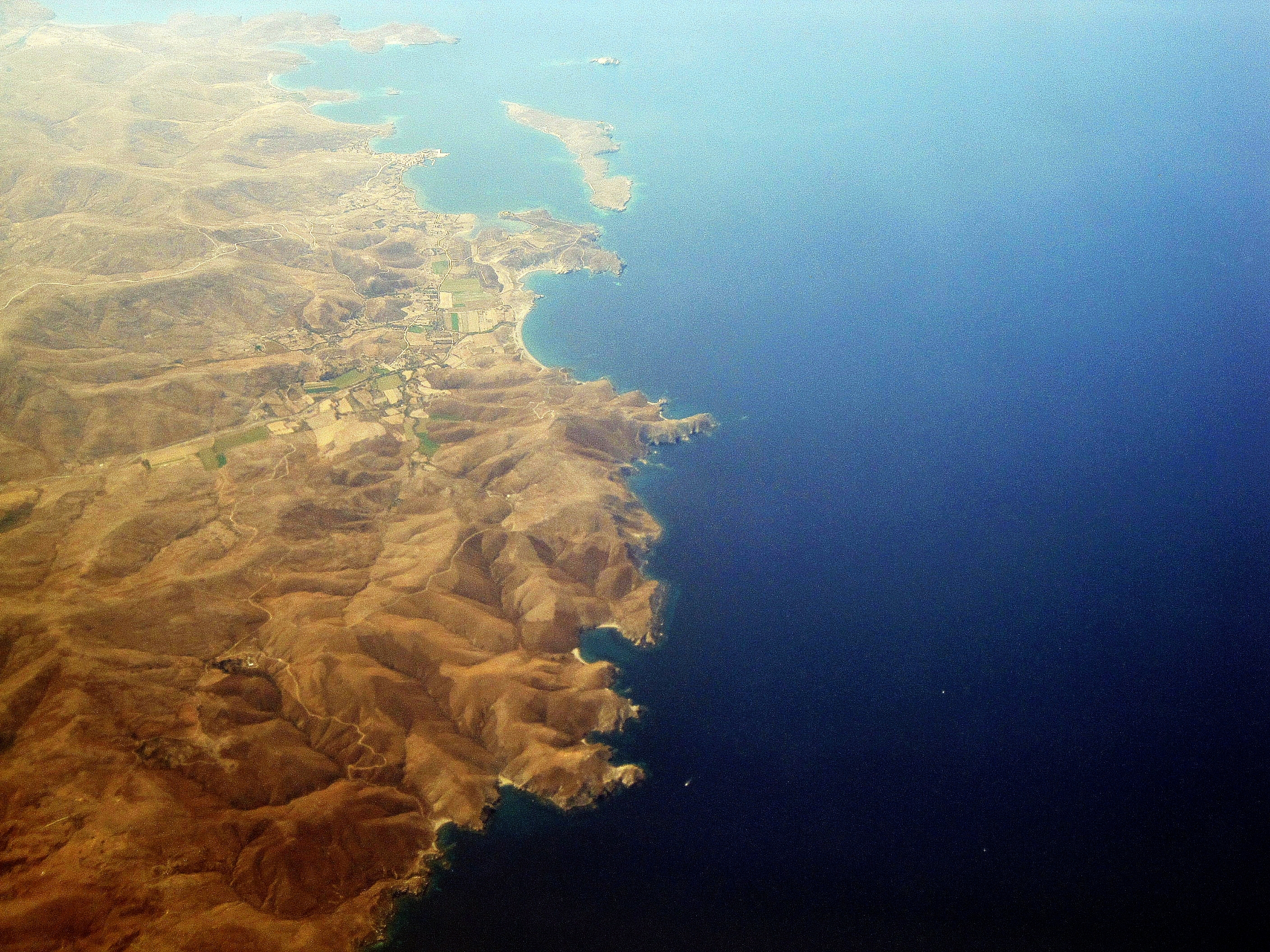 Megalonisi, Sigri from the air, Lesbos, Greece